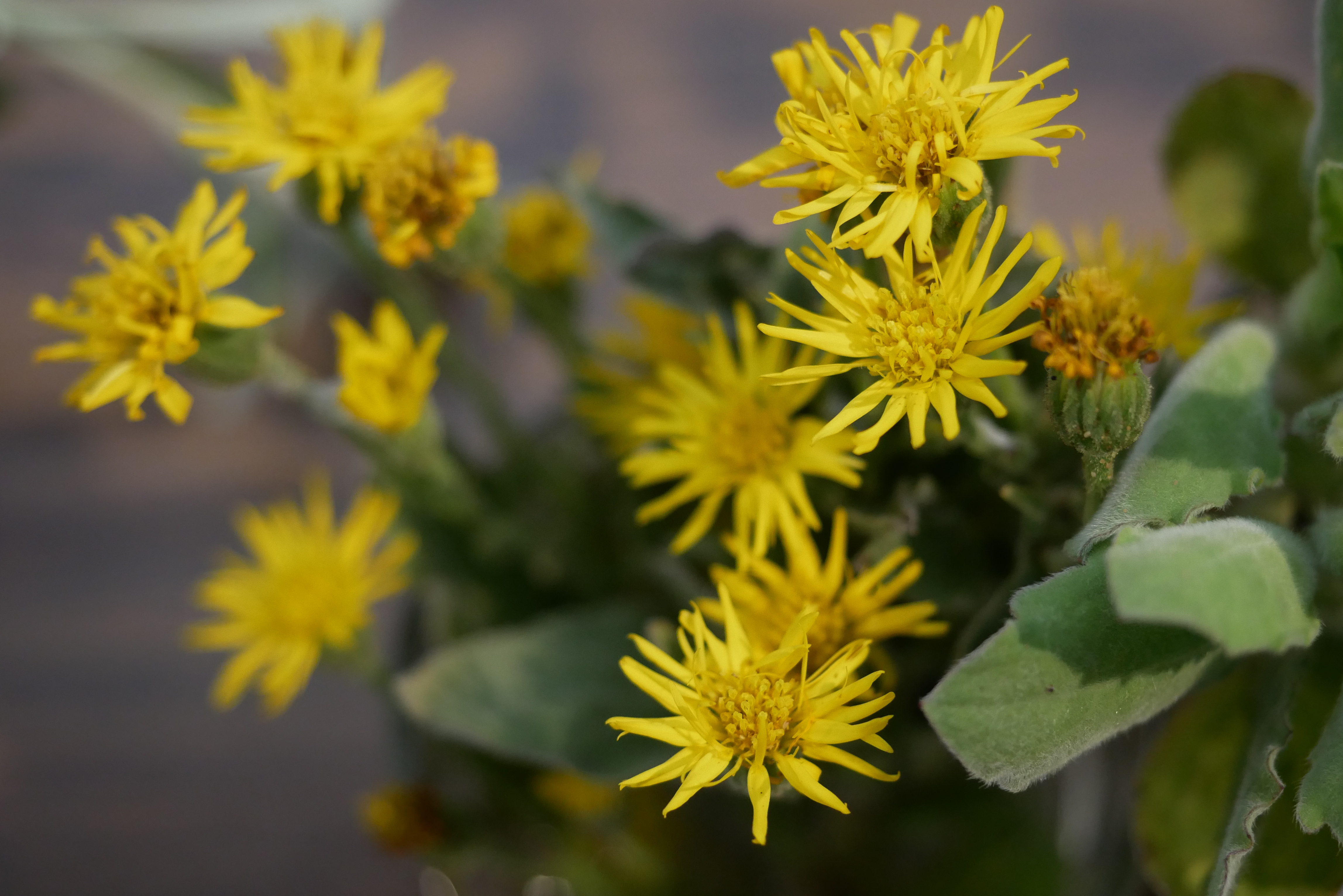 Asteraceae Heterotheca grandiflora Telegraph Weed